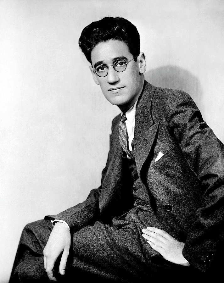 Portrait photograph of George S. Kaufman